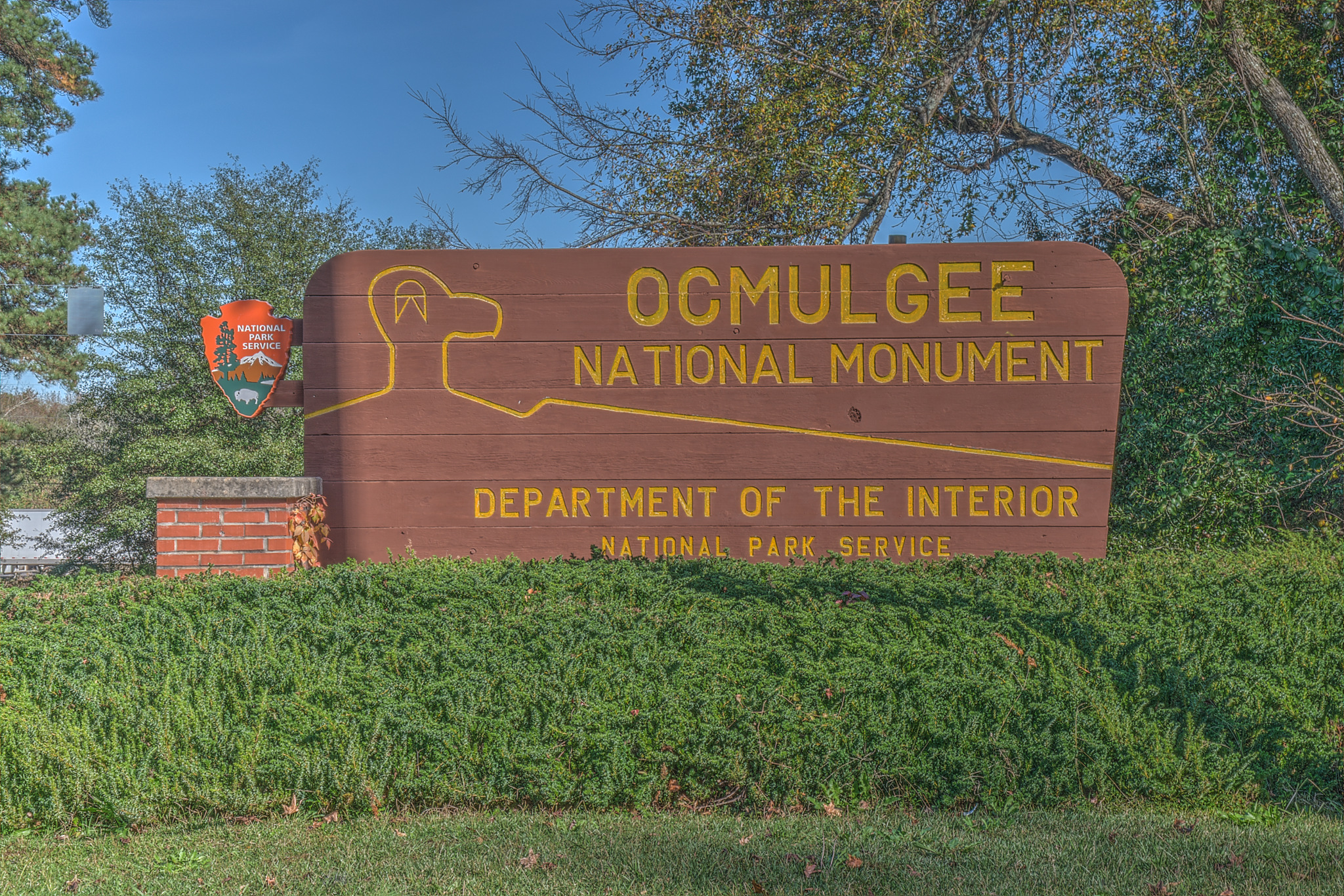 entrance sign to Ocmulgee National Monument